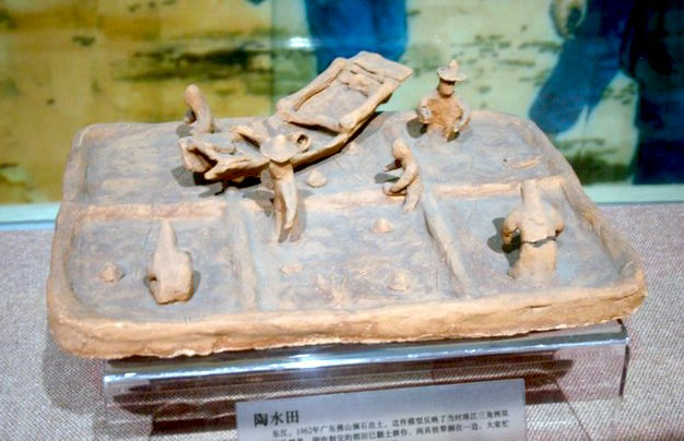 A Chinese pottery model of a rice paddy field, from the Eastern Han period (25–220 CE).